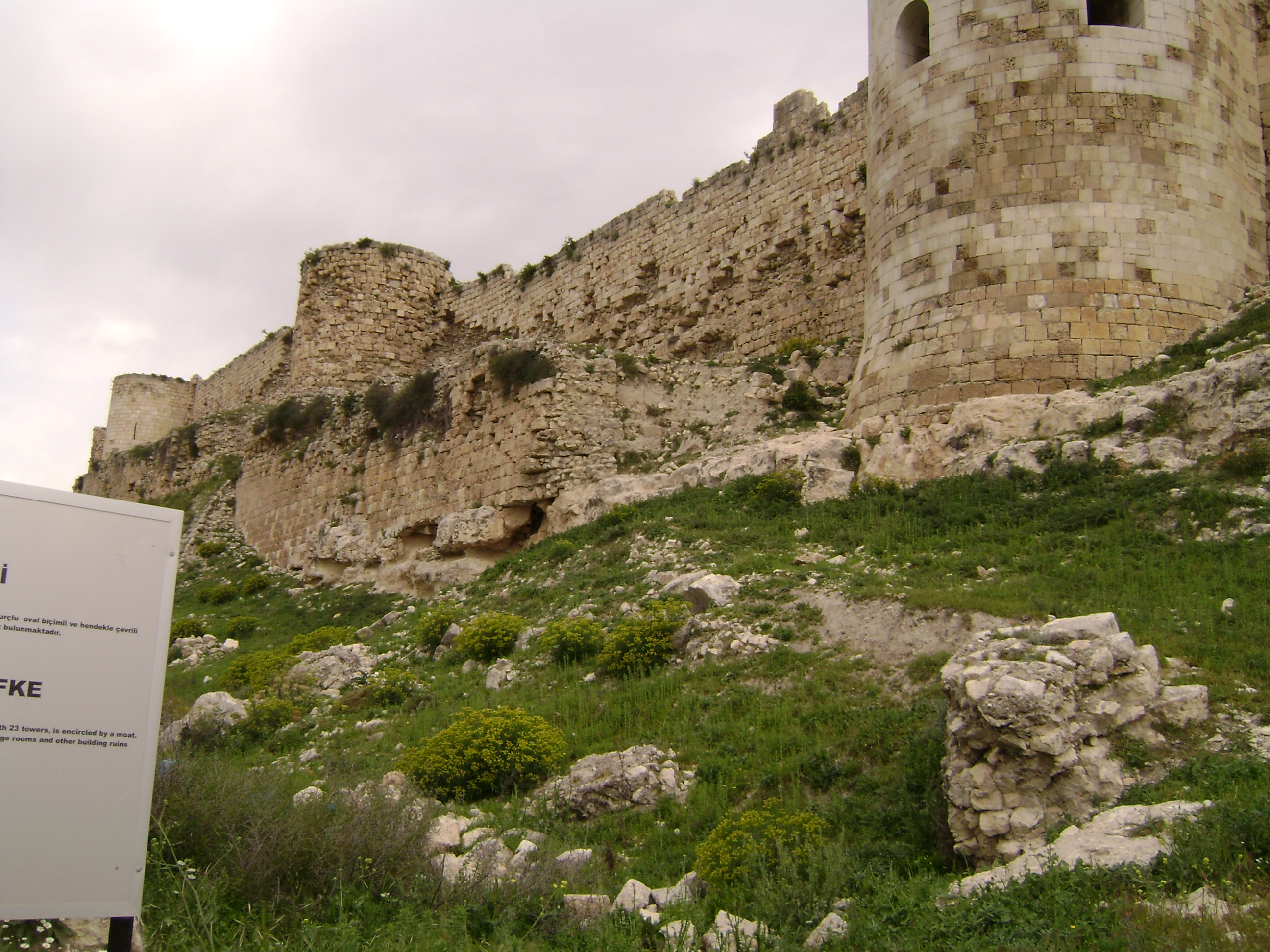 Silifke castle wall